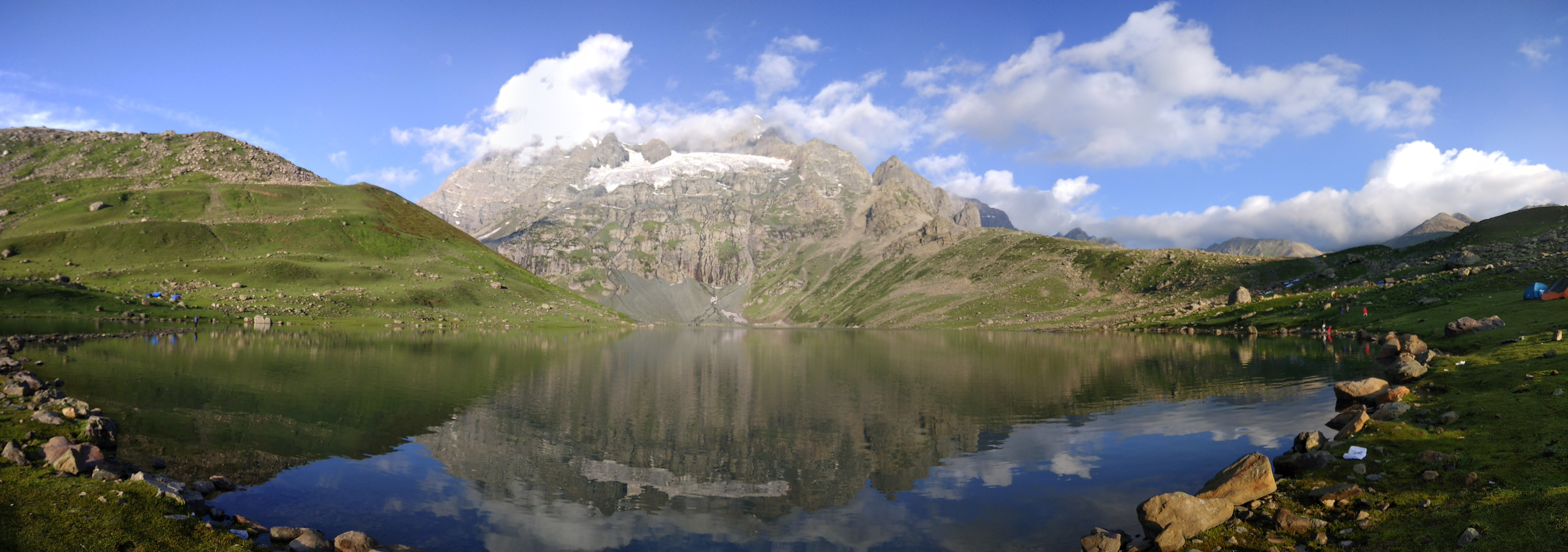 A panoramic view of Nundkol Lake with Mt. Harmukh in the background.